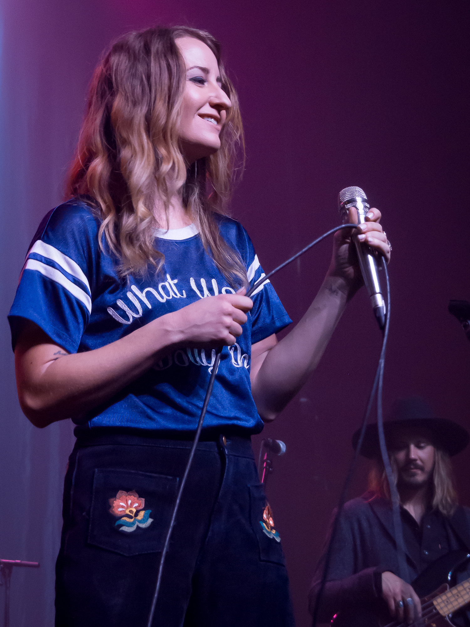 Margo Price performing live at the Fonda Theatre in Los Angeles, California on Thursday, March 1, 2018. Point-and-shoot pics taken for Pass The Aux.